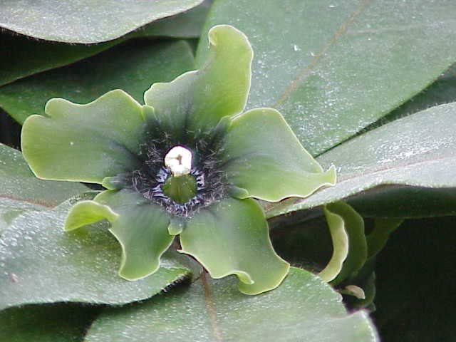 Species: Deherainia smaragdina Family: Theophrastaceae Image No. 2